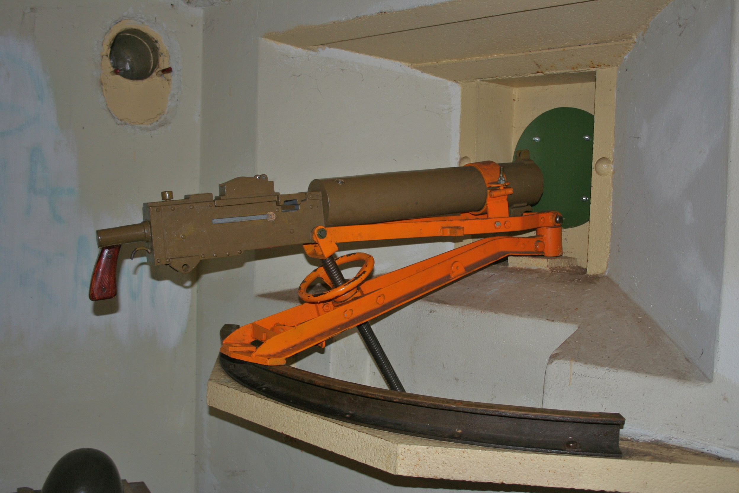 Interiors of Bunker Sabała.